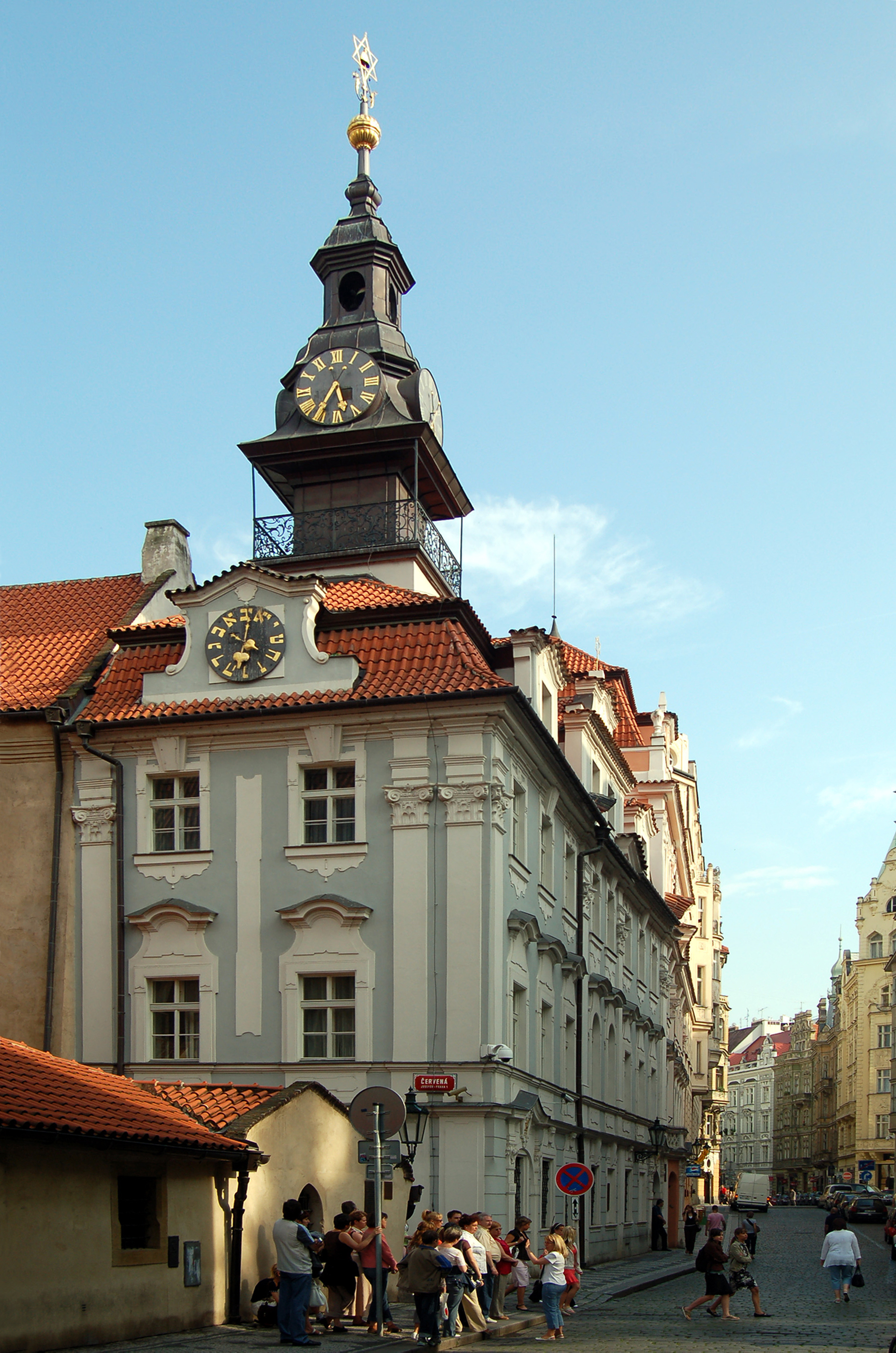 Townhall of the Jewish city in Prague